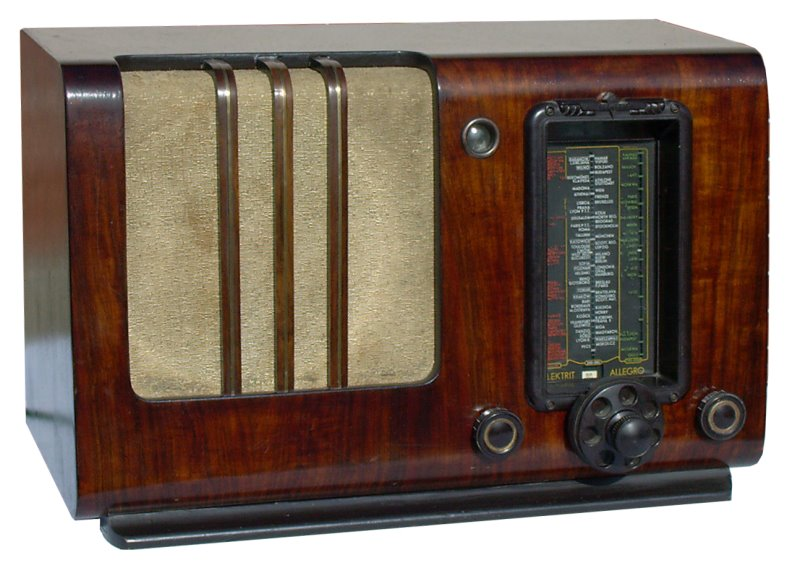 Radio "Allegro Z", (front)manufacturer: "Elektrit" (Poland), 1938/39